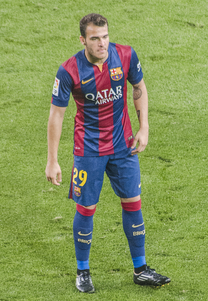 Sandro Ramirez playing for FC Barcelona in a La Liga match against Eibar on 18 October 2014.